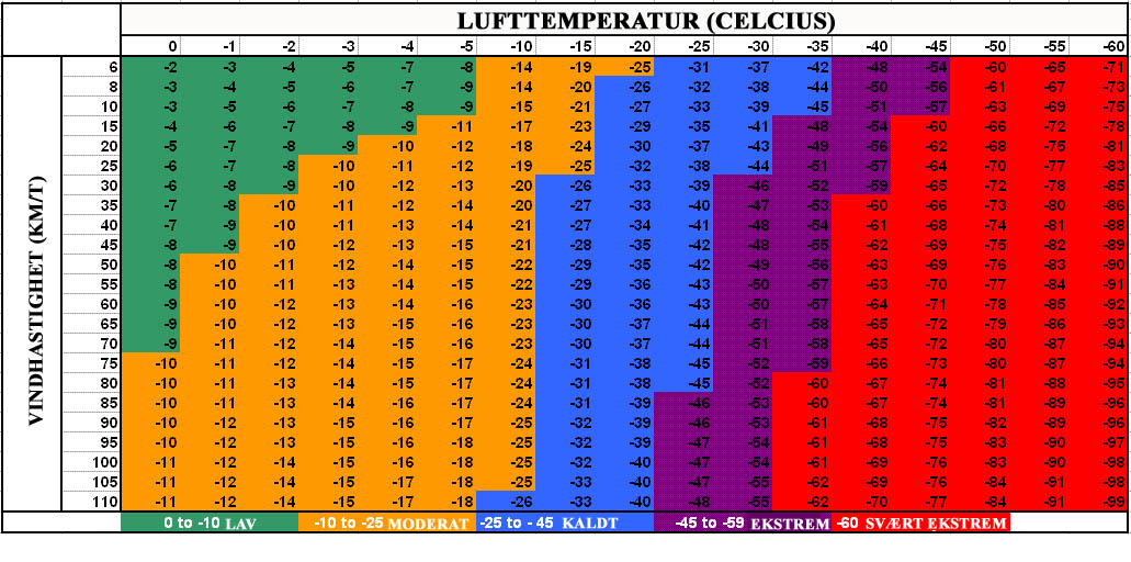 A wind chill chart I made in Excel using the formulas provided in the wikipedia article. This is based on the new formula for wind chill. The colour coding relates to the likelihood of frostbite. I will update the article with a break down of what the colours mean. Philbentley 19:47, 30 October 2006 (UTC)